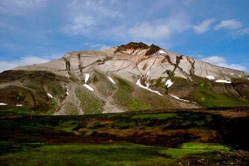 the mountain Hvítserkur in Austurland, Iceland